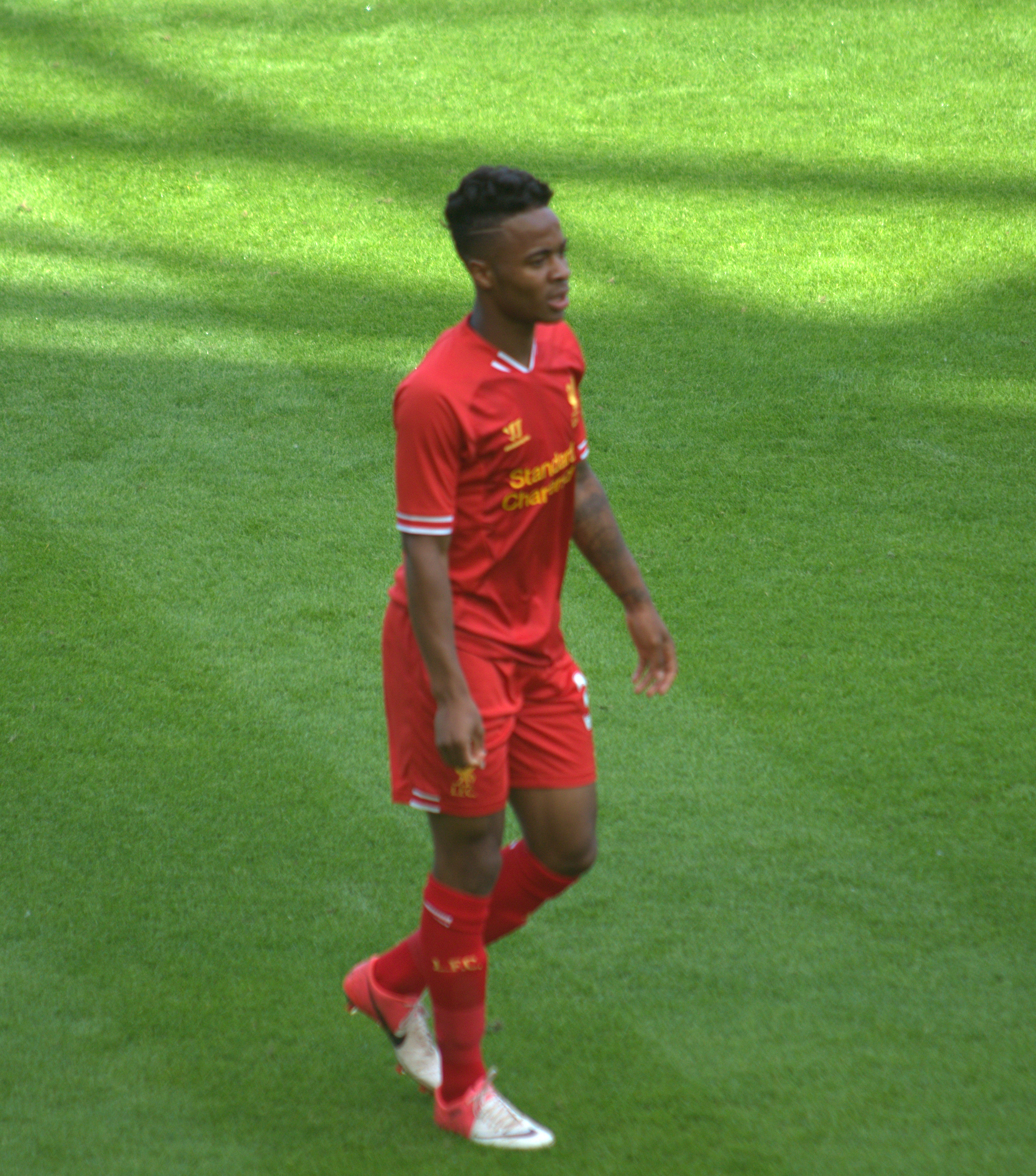 Raheem Sterling in a friendly game against Preston North End in 2013.